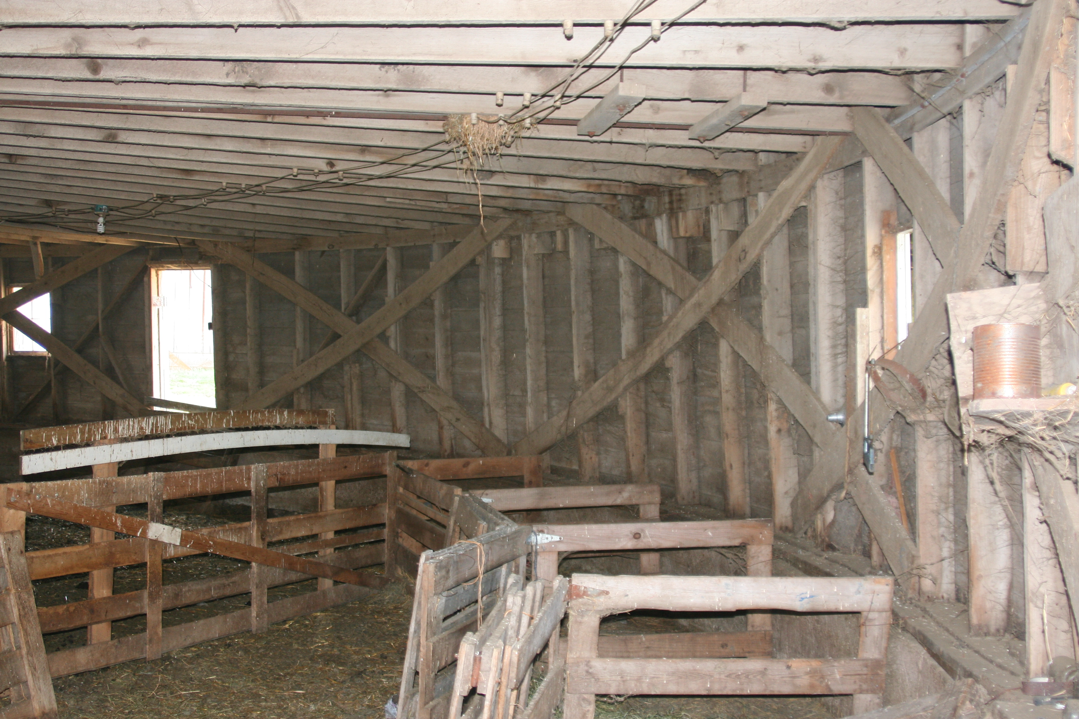 Interior shot of the Jim Kaney Round Barn found on Bluff Road, Maryland Township, Adeline, Ogle County, Illinois, USA.